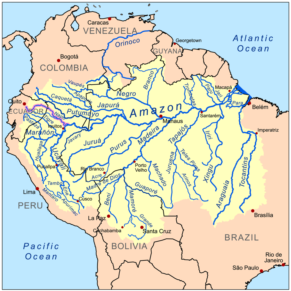 This is a map of the Amazon River drainage basin, now with the Napo River highlighted.